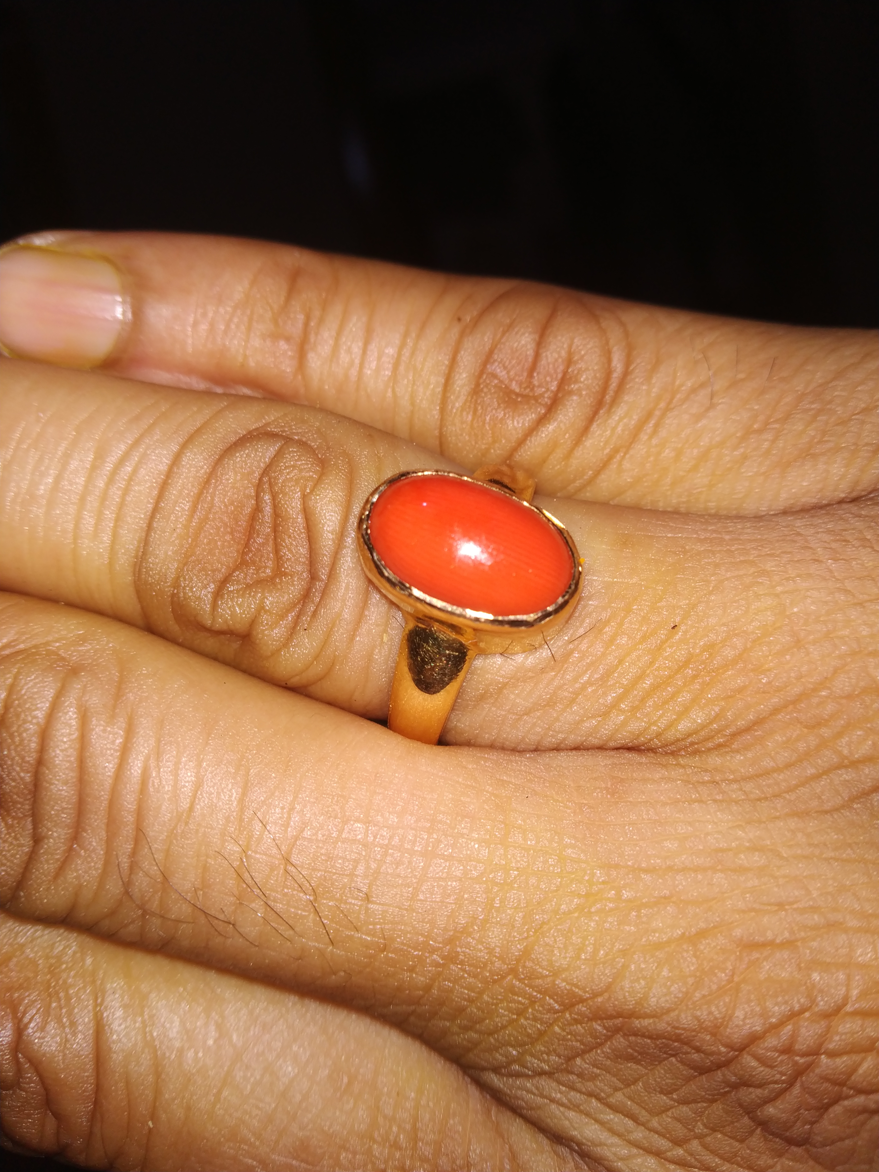 Coral